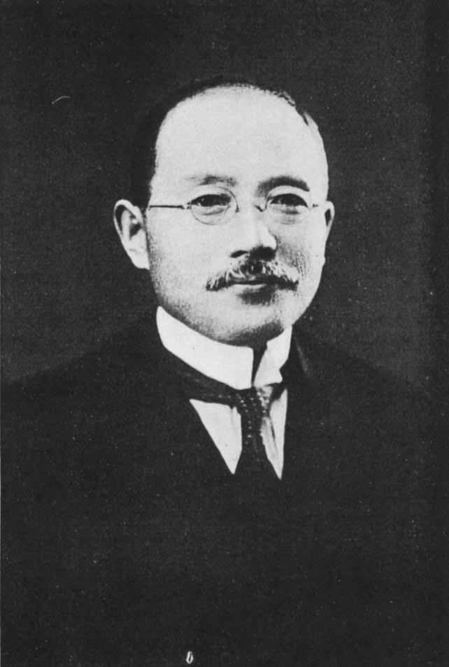 Konishi Shigenao.